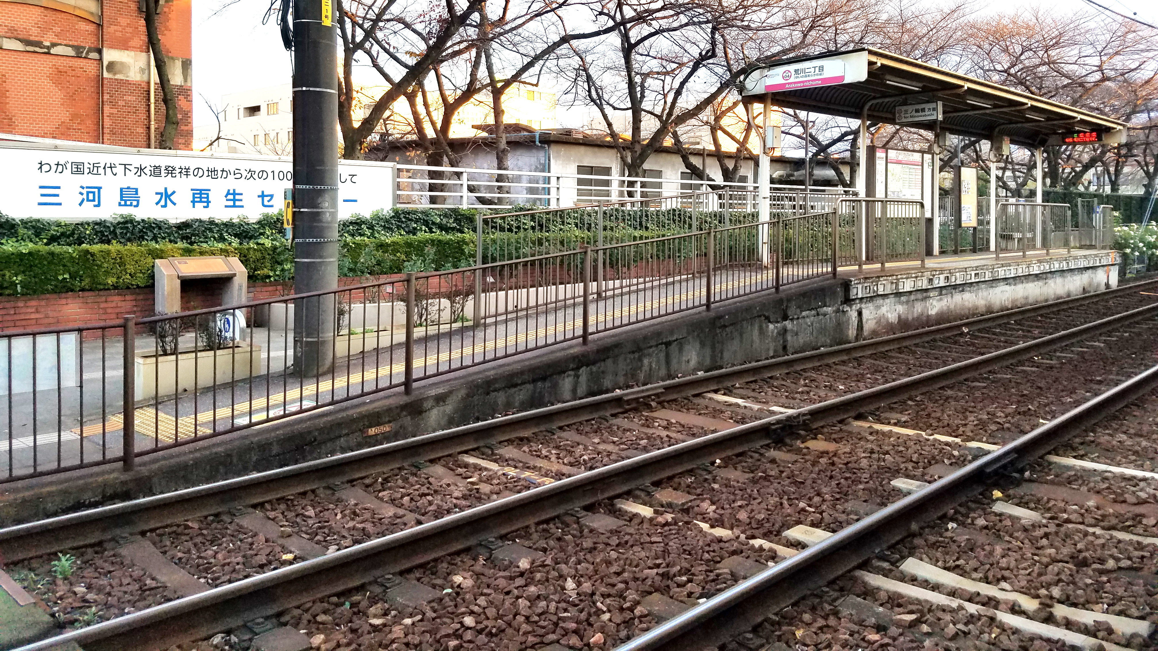 The Minowabashi-bound platform at Arakawa-nichōme Station on the Toden Arakawa Line(Tokyo Sakura Tram) in Arakawa city, Tokyo, Japan